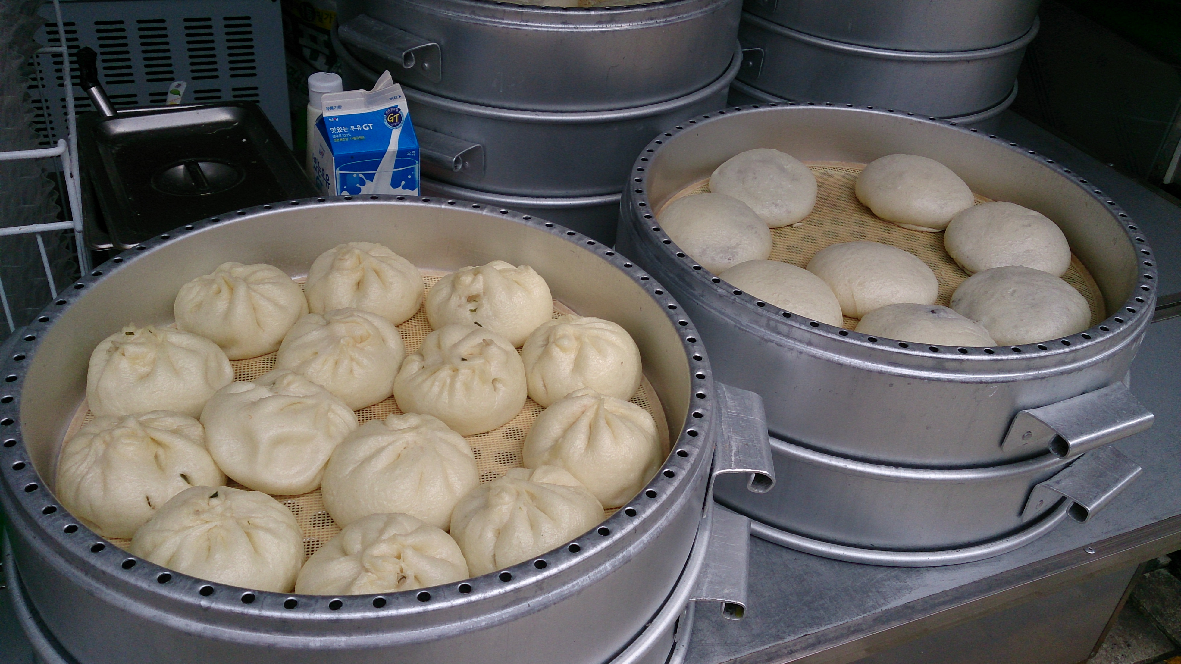 Big soup bao sold at Haeundae Market, Busan, South Korea